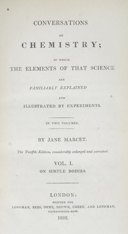 Title page of "Conversations on chemistry; in which the elements of that science are familiarly explained and illustrated by experiments" by Mrs. Jane Marcet, 1769-1858. London, Longman, Rees, Orme, Brown, Green, Longman, 1832, Twelfth edition. The twelfth edition was the first one to identify Mrs. Marcet as the author.